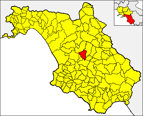 Locator map of the municipality of Aquara (red) within the Province of Salerno